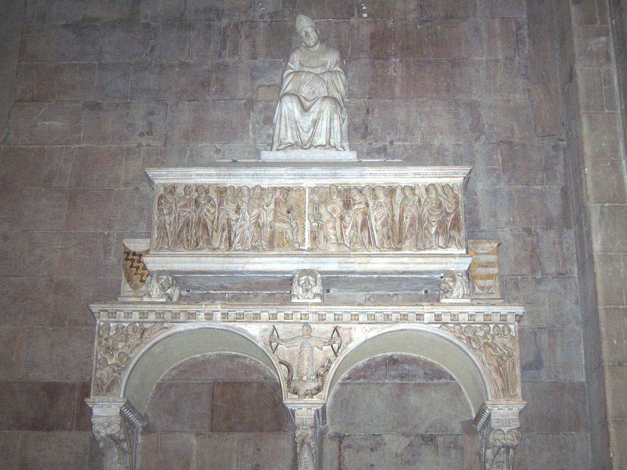 Tomb of Antonio d'Orso, bishop of Florence, by Tino da Camaino (1323); Duomo Santa Maria del Fiore, Florence, Italy. Own photo - photo made on 13 October 2005.